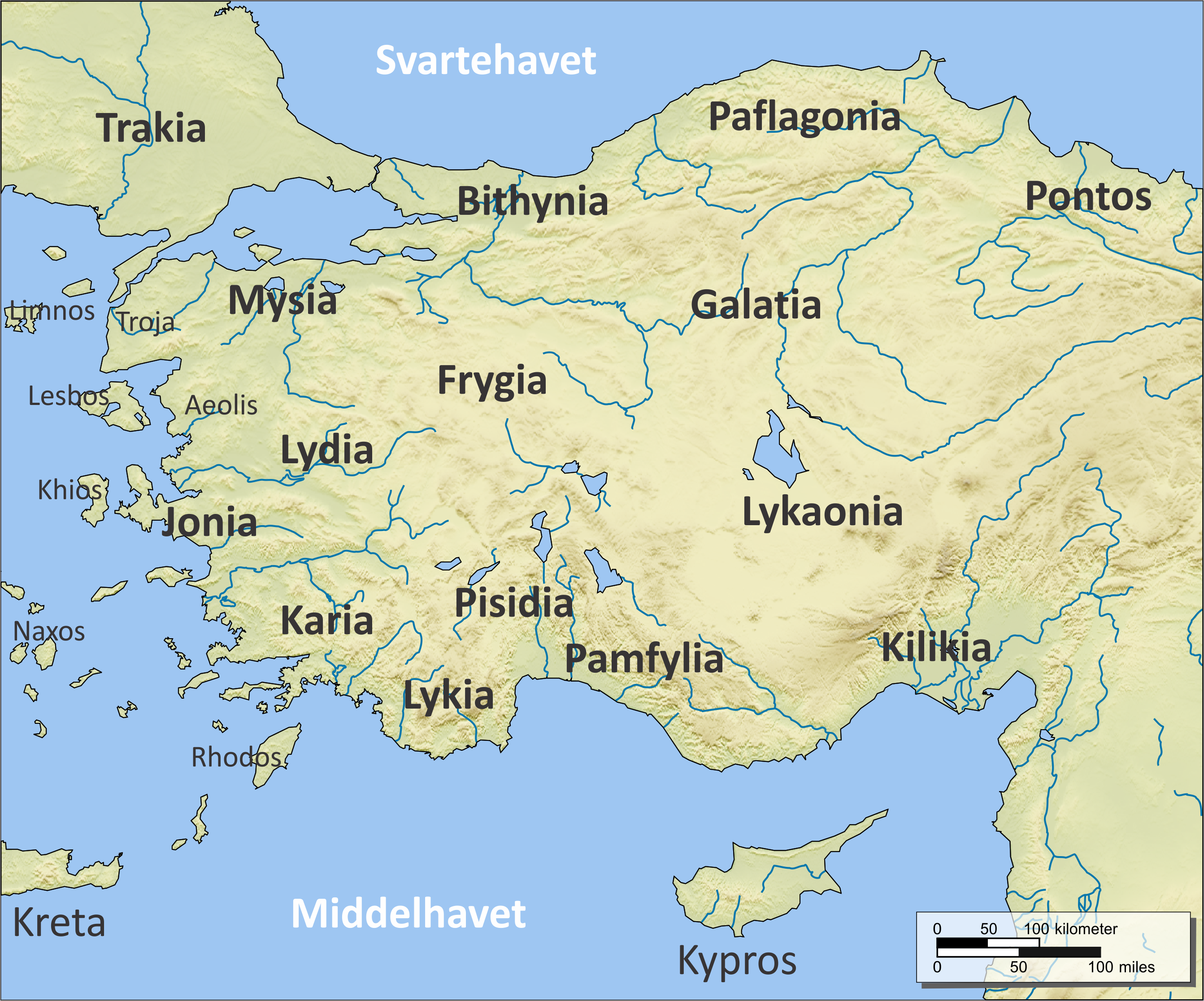 History map over Anatolia, ancient people and their placement, in Norwegian (Done in CorelDraw, possible to export to SVG)